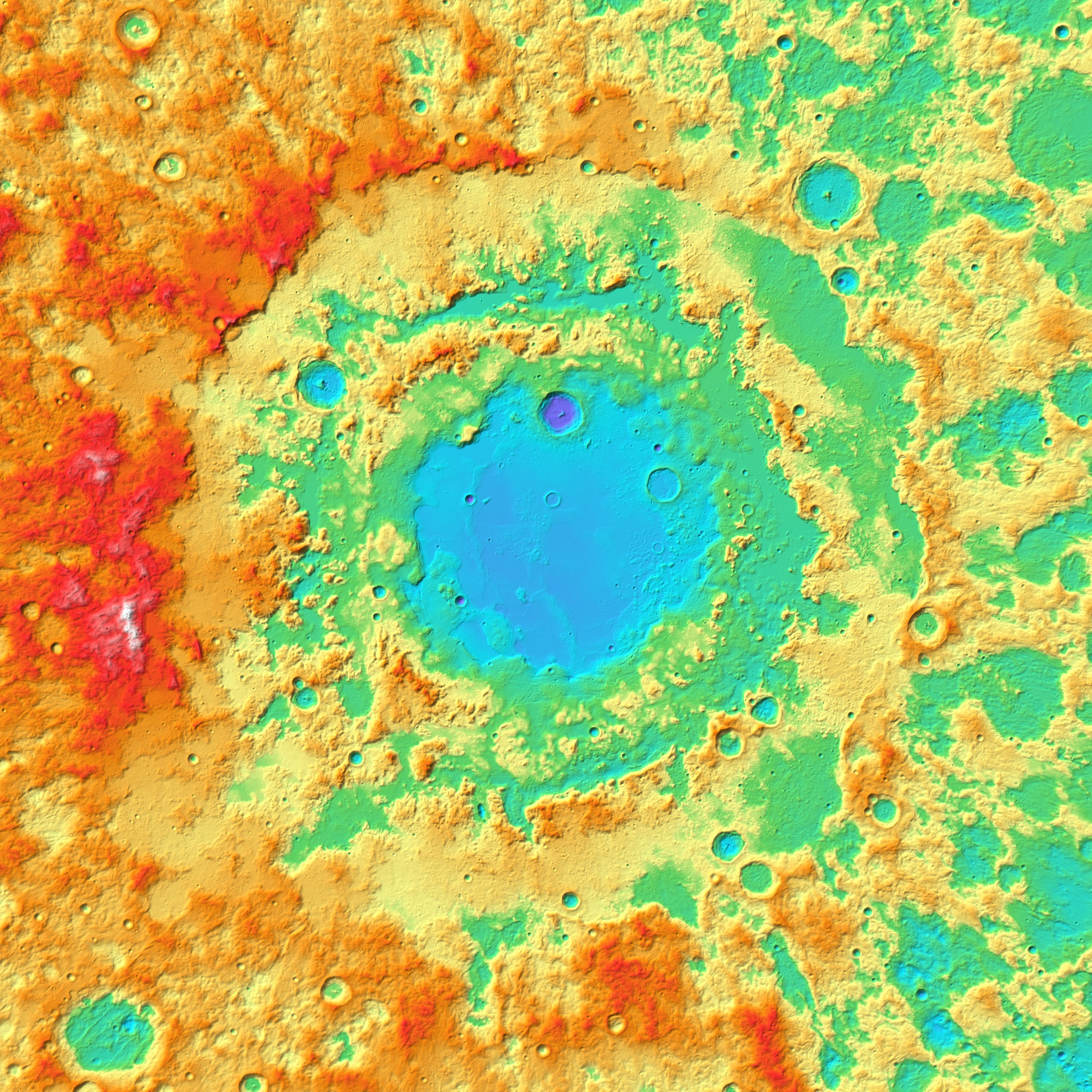 Mare Orientale on the Moon. Topographic map (color shaded relief), based on Global Lunar DTM 100 m topographic model (GLD100), which is based on data acquired by Lunar Reconnaissance Orbiter. Size of the image is 1300×1300 km, north is up. The image has the same span and resolution as a photomosaic Mare Orientale (LRO).png.